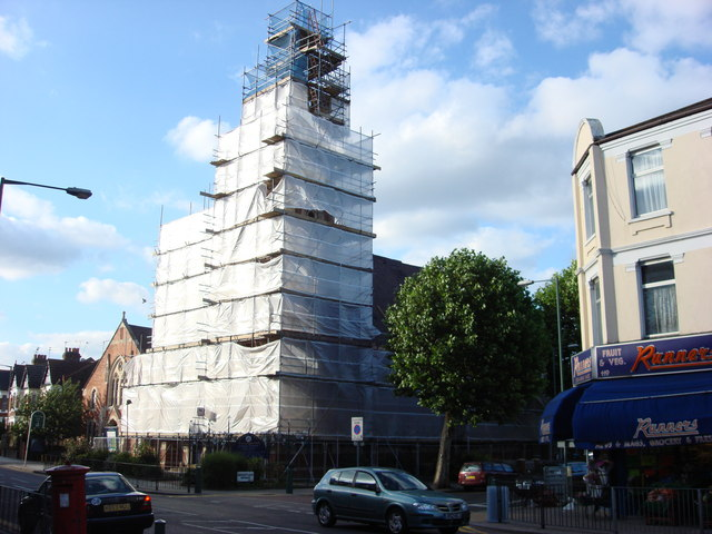 Church under wraps, Brondesbury (this being the nearest station) (or in slightly dated terms: Kensal Rise) on the old Kilburn/Willesden borders of the London Borough of Brent. The Church of the Transfiguration, Catholic Church undergoing maintenance